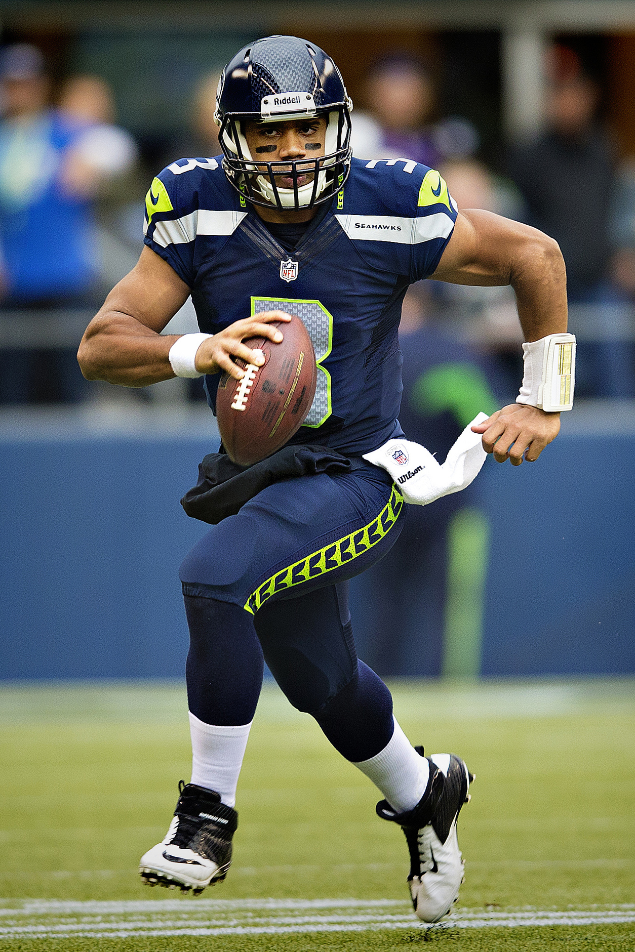 Russell Wilson, Seahawks vs Rams 12.29.13